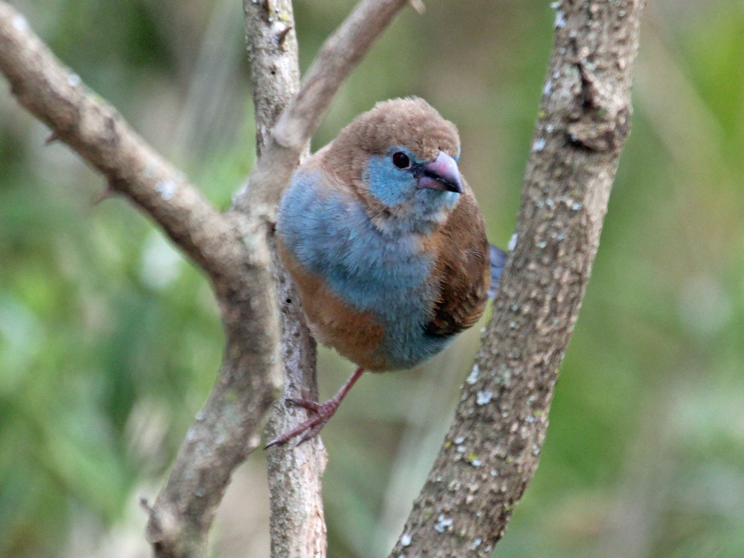 Female Red-cheeked Cordonbleau (Uraeginthus bengalus) - near Gilgil, Kenya at the Kigio Wildlife Conservancy.